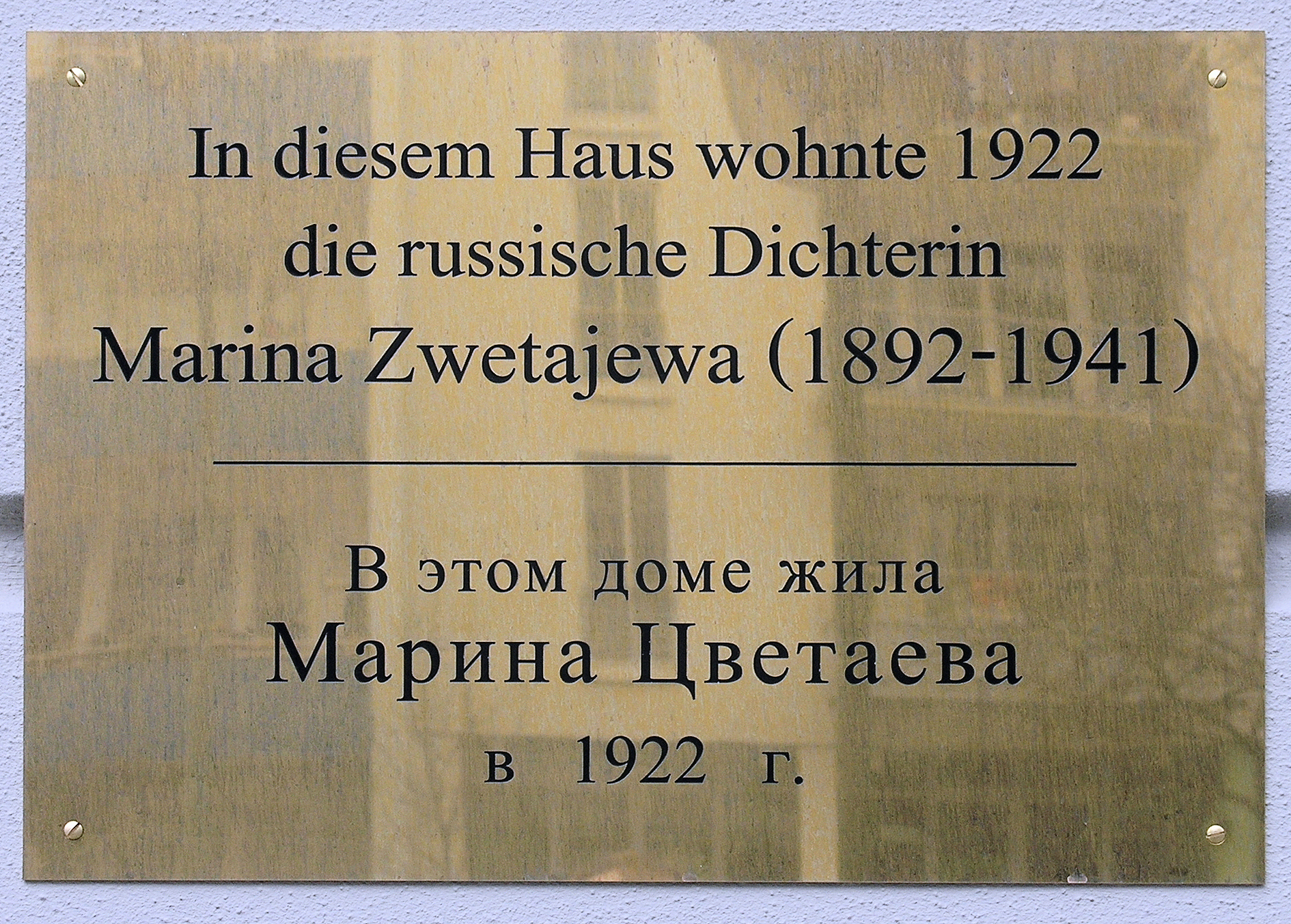 Memorial plaque, Marina Zwetajewa, Trautenaustraße 9, Berlin-Wilmersdorf, Germany